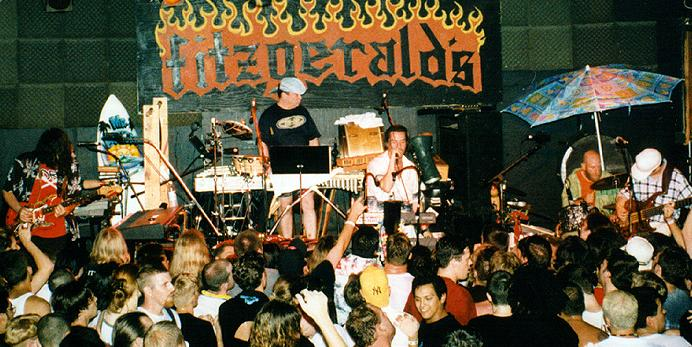 . Author: Heather Leah Kennedy